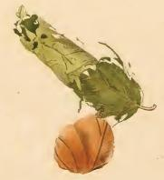 Stainton’s Natural History of the Tineina (1855–1873): Incurvaria koerneriella